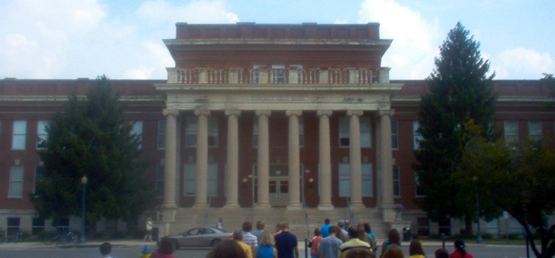 Kirksey Old Main building on the campus of Middle Tennessee State University.